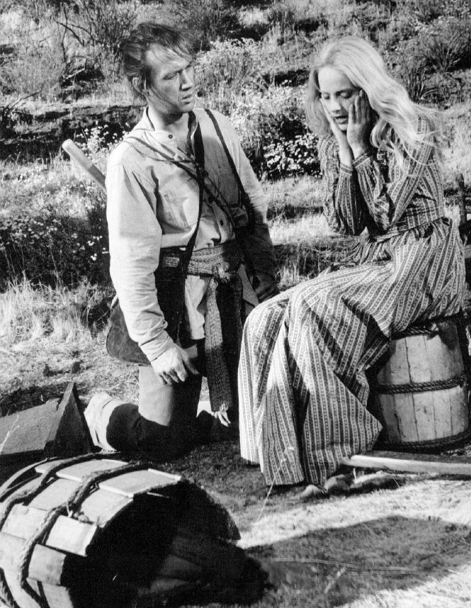 Publicity photo of David Carradine and Sondra Locke from the television program Kung Fu.